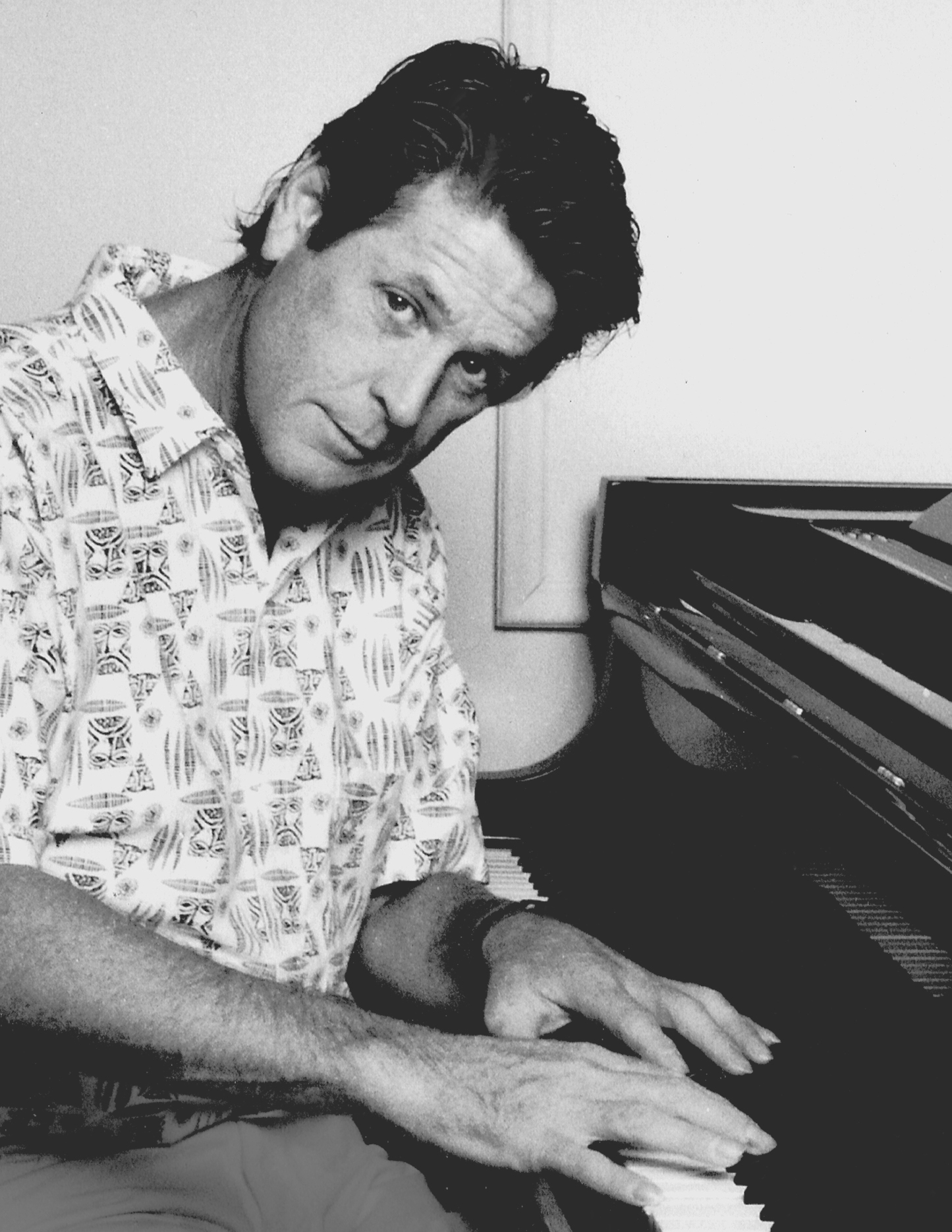 Legendary musician and songwriter, Brian Wilson of the Beach Boys, in Santa Monica, California in 1990. Photograph by Ithaka Darin Pappas